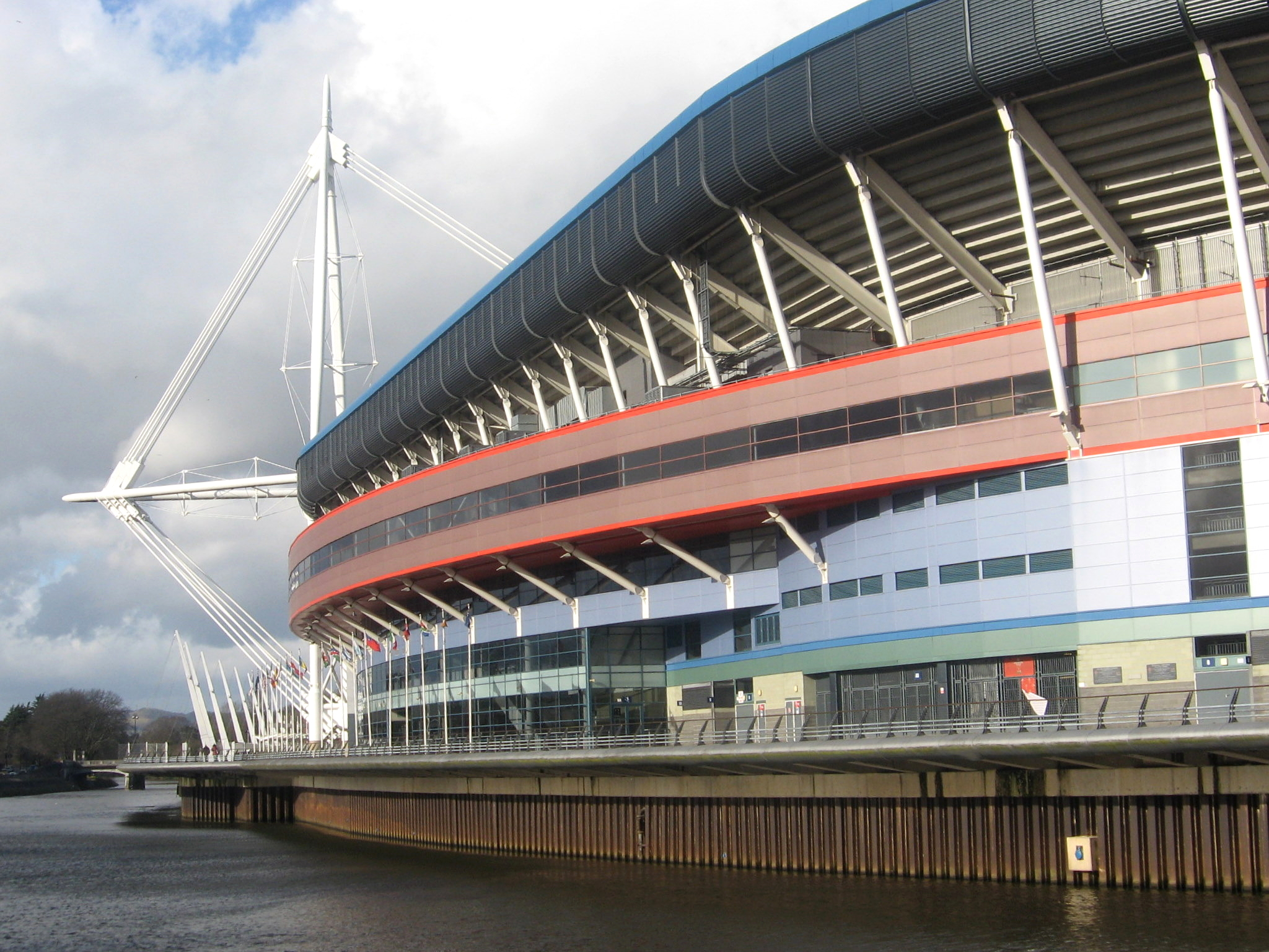 Exterior of the Principality Stadium, Cardiff, Wales